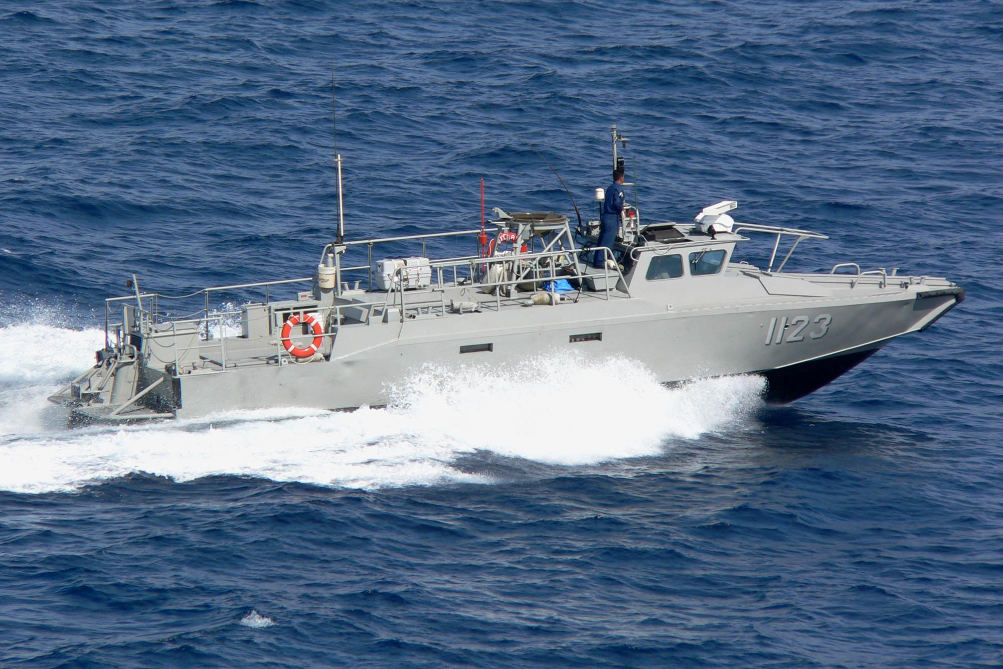 Photo of Mexican Navy patrol boat ARM Armelnath off Cabo San Lucas